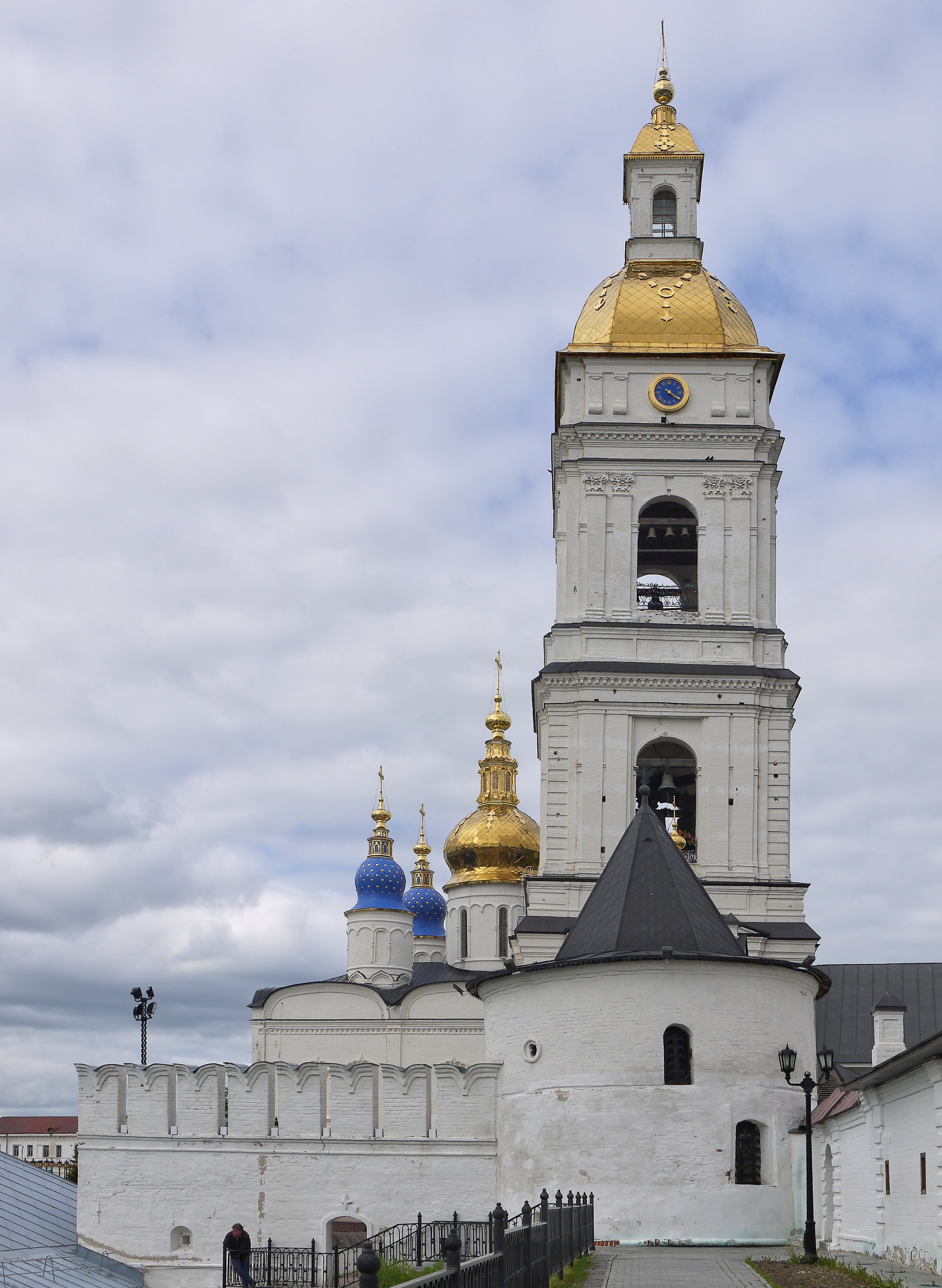 The Pavlin Tower and Cathedral Bell Tower.